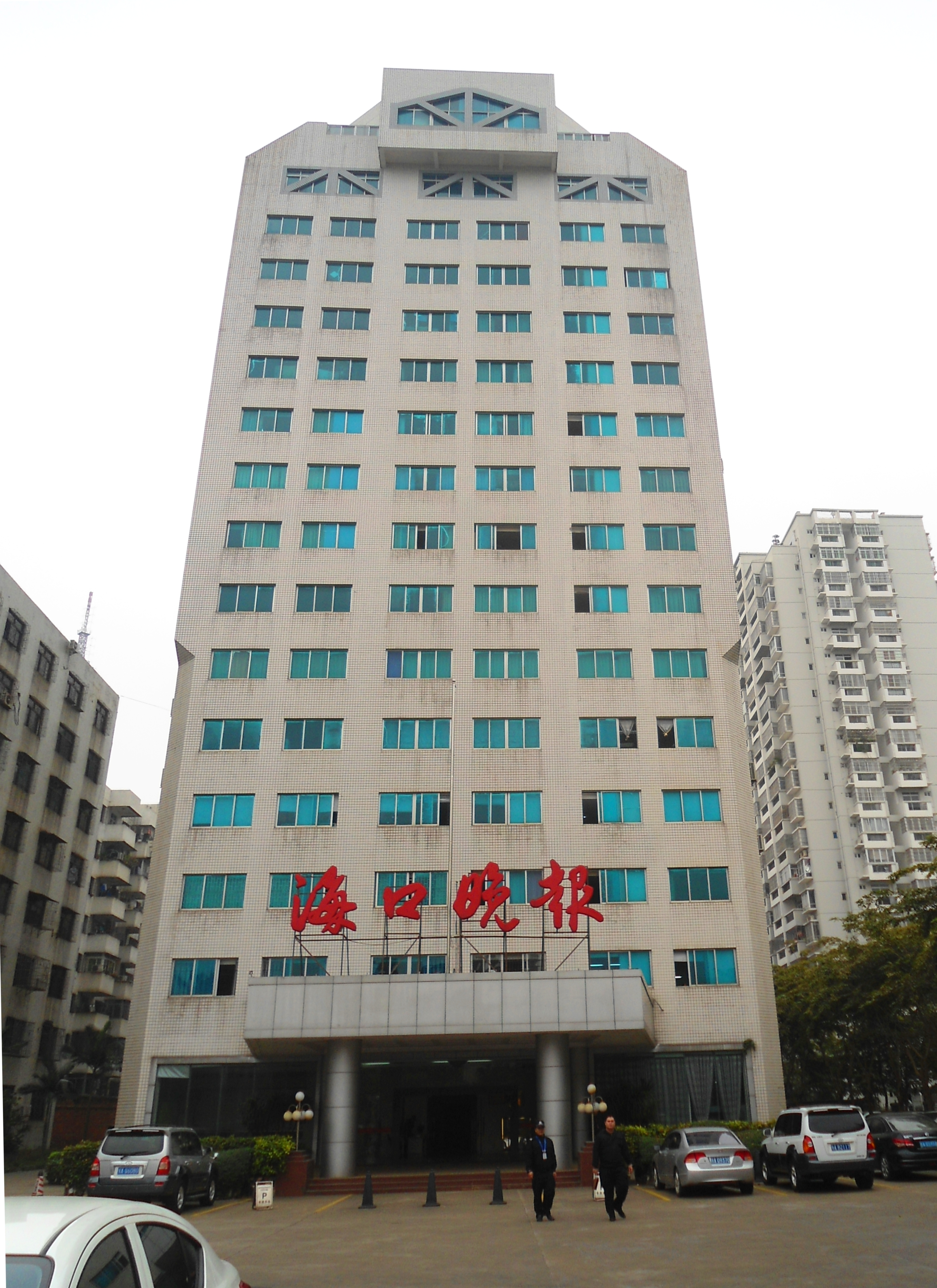 Haikou Evening News building, Haikou, Hainan, China.